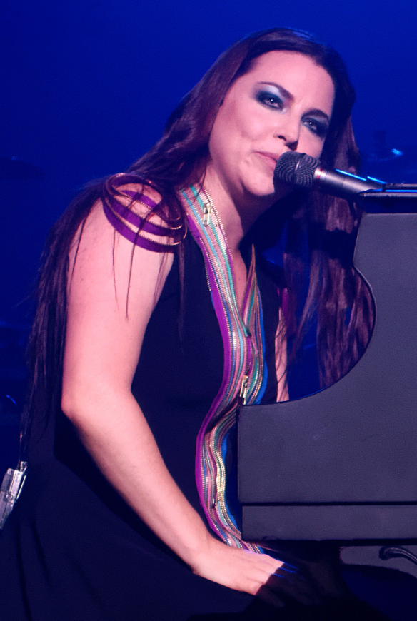 Evanescence performing live at The Wiltern theatre in Los Angeles, California on Tuesday November 17th, 2015.